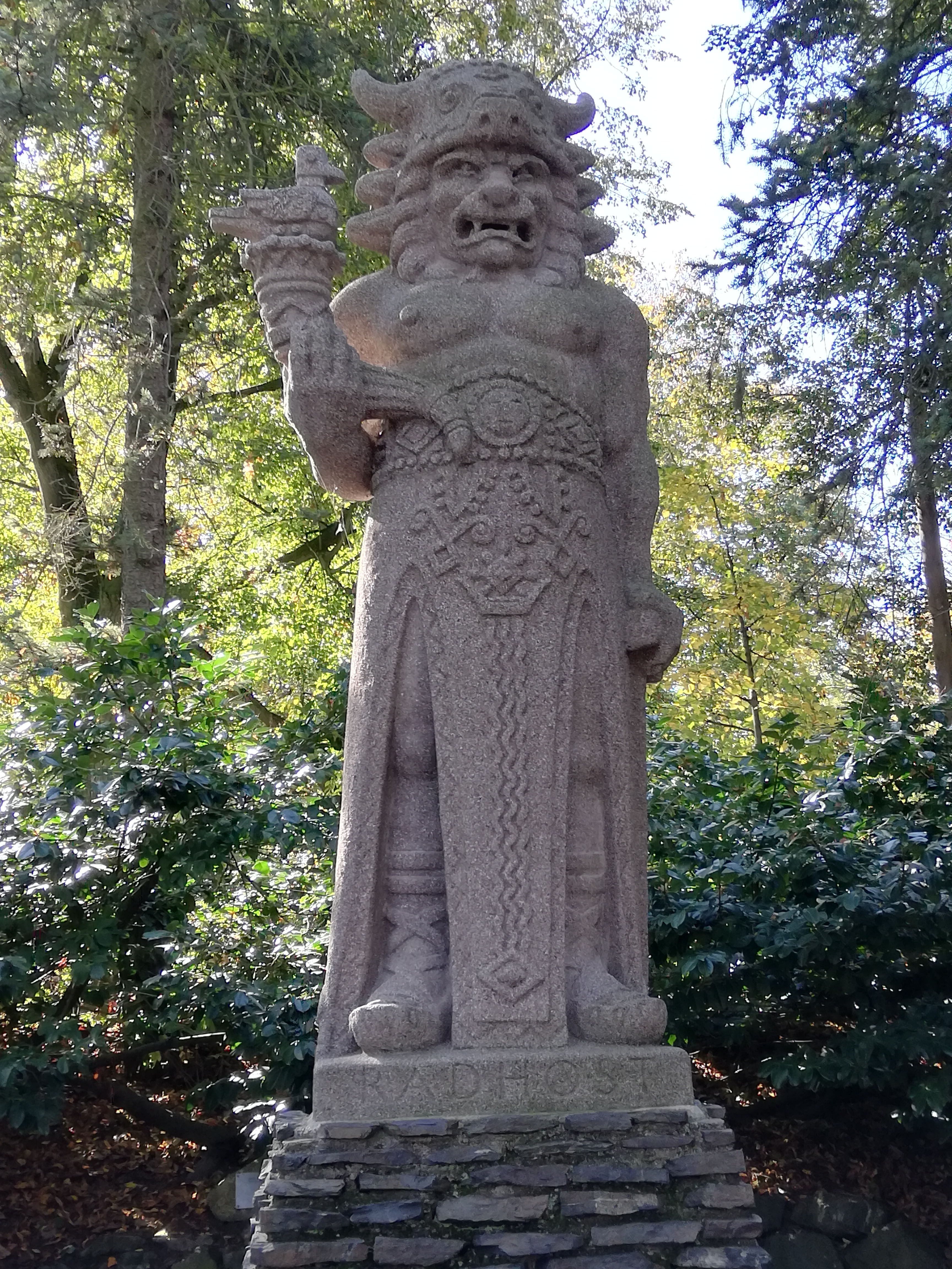 Statue of Slavic god Radegast in the Prague Zoo, Czech Republic. Author of the statue: sculptor Albín Polášek; year of completion: 1929/1931; material: artificial stone with granite grit and iron insert; height: 3.2 m; weight: 1400 kg; The statue is hollow.